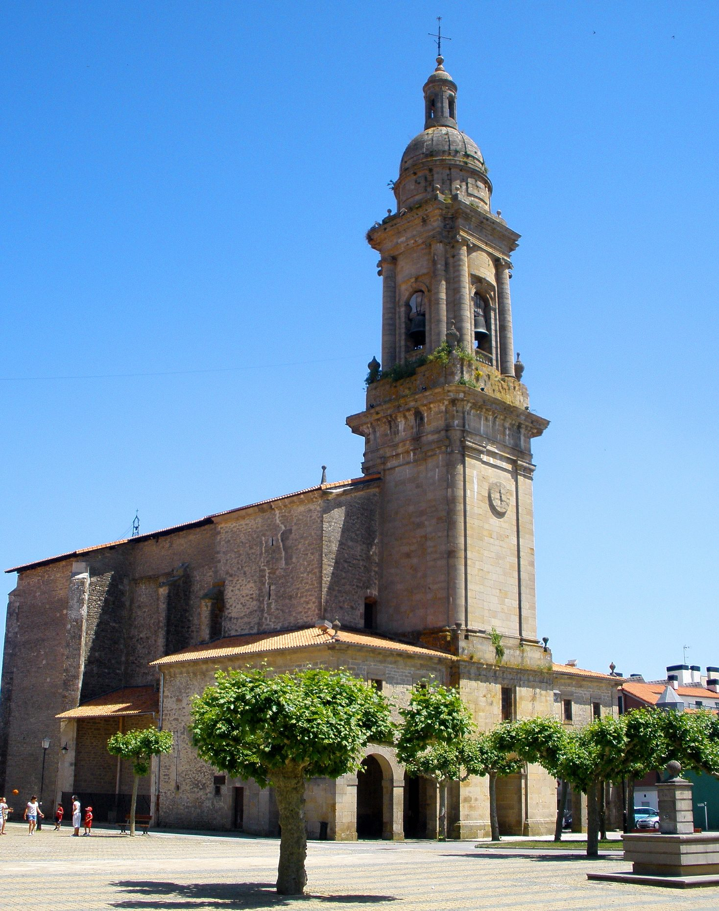 Iglesia de San Blas, en Alegría-Dulantzi (Álava, País Vasco, España)